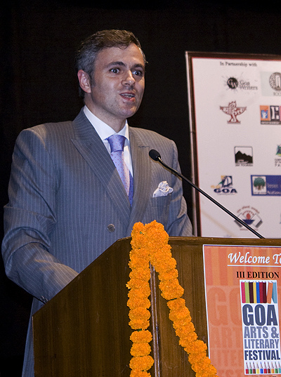 Omar Abdullah, the chief minister of Jammu & Kashmir was among the VIPs who shared the dais at the inaugural function of the 3rd Goa Arts & Literary Festival 2012, held at the Kala Academy auditorium in Panjim, Goa, India, on December 13, 2012.